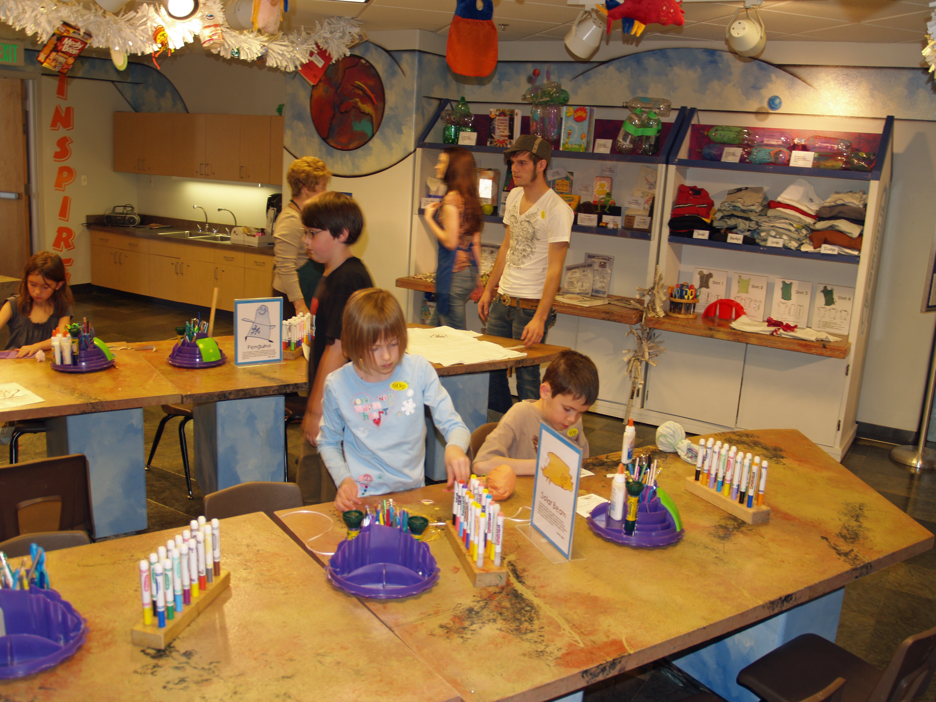 The Pueblo, Colorado Buell Children's Museum interior where children and their guardians can create art.